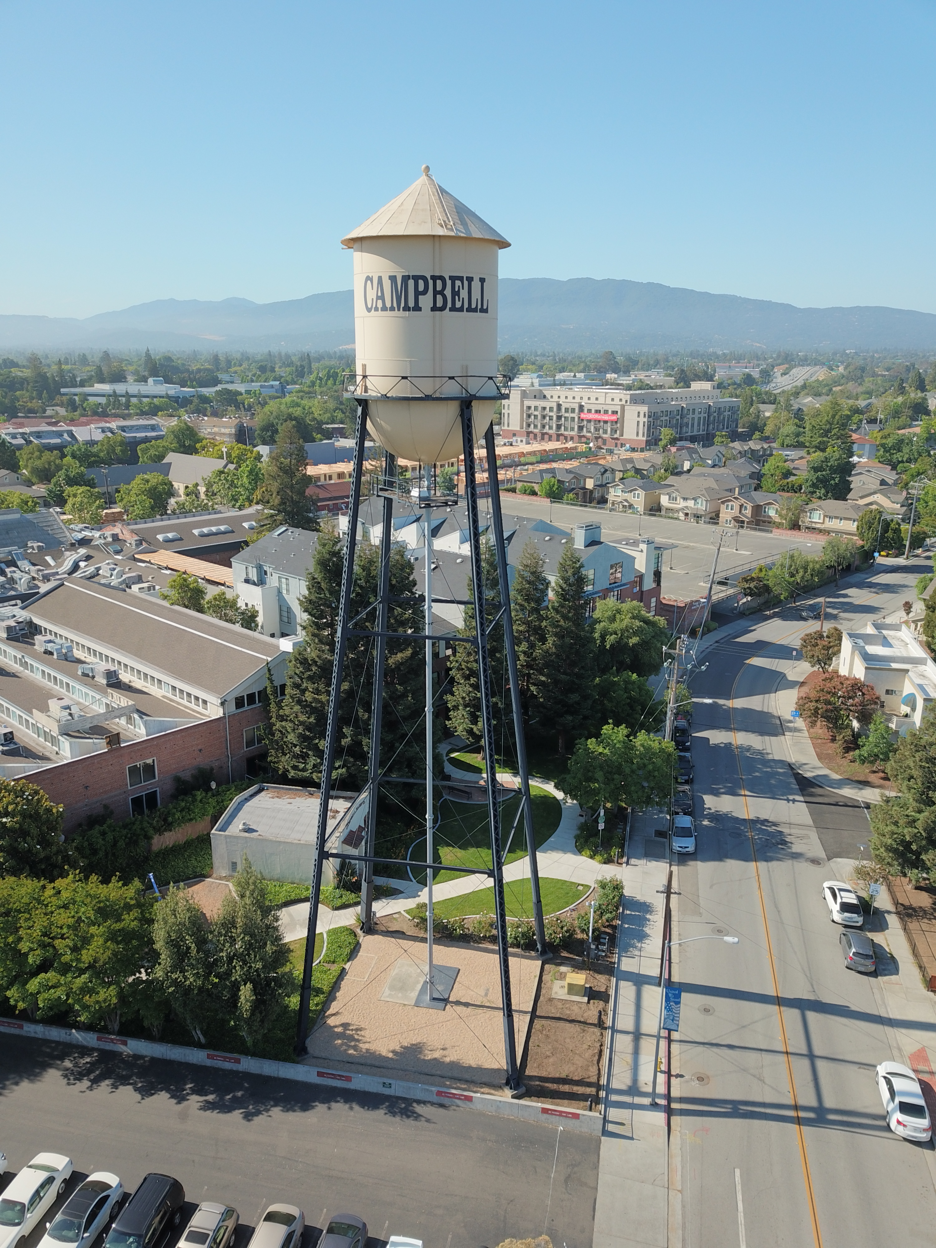 The water tower in downtown Campbell, California, as seen from a drone 36 meters above the ground.